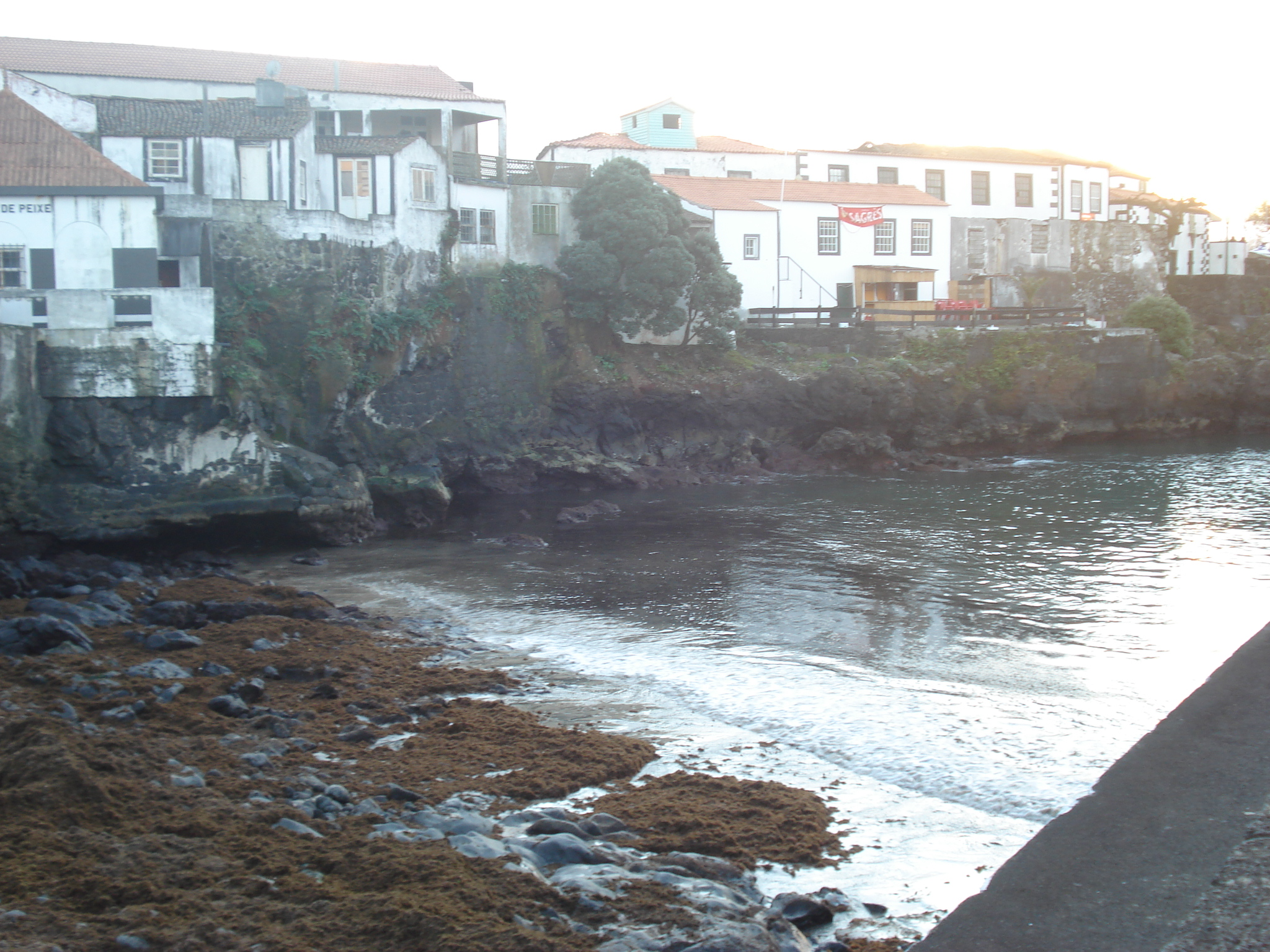 The old port of Madalena, during low tide, civil parish of Madalena, municipality of Madalena do Pico (Azores), Portugal